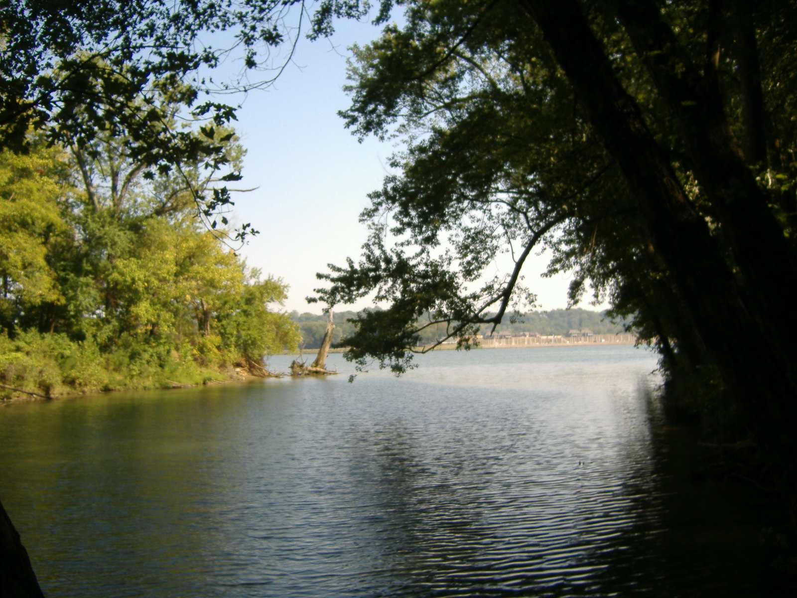 Mouth of Fourteen Mile Creek in Charlestown State Park.